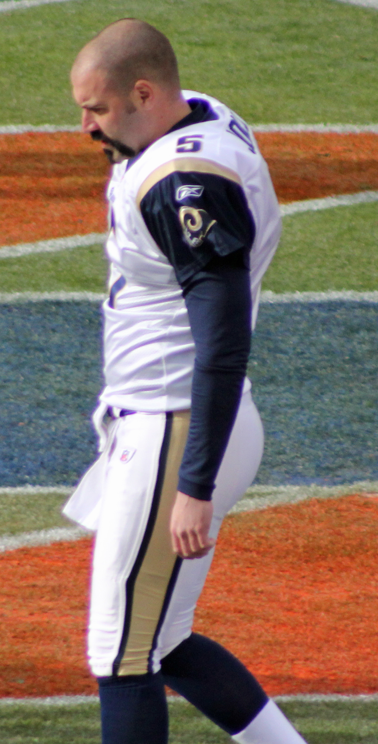 Donnie Jones, a player on the Saint Louis Rams American football team.